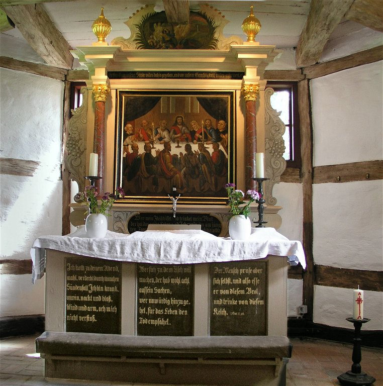 Church of Peckatel - altar -- Mecklenburg (Germany)